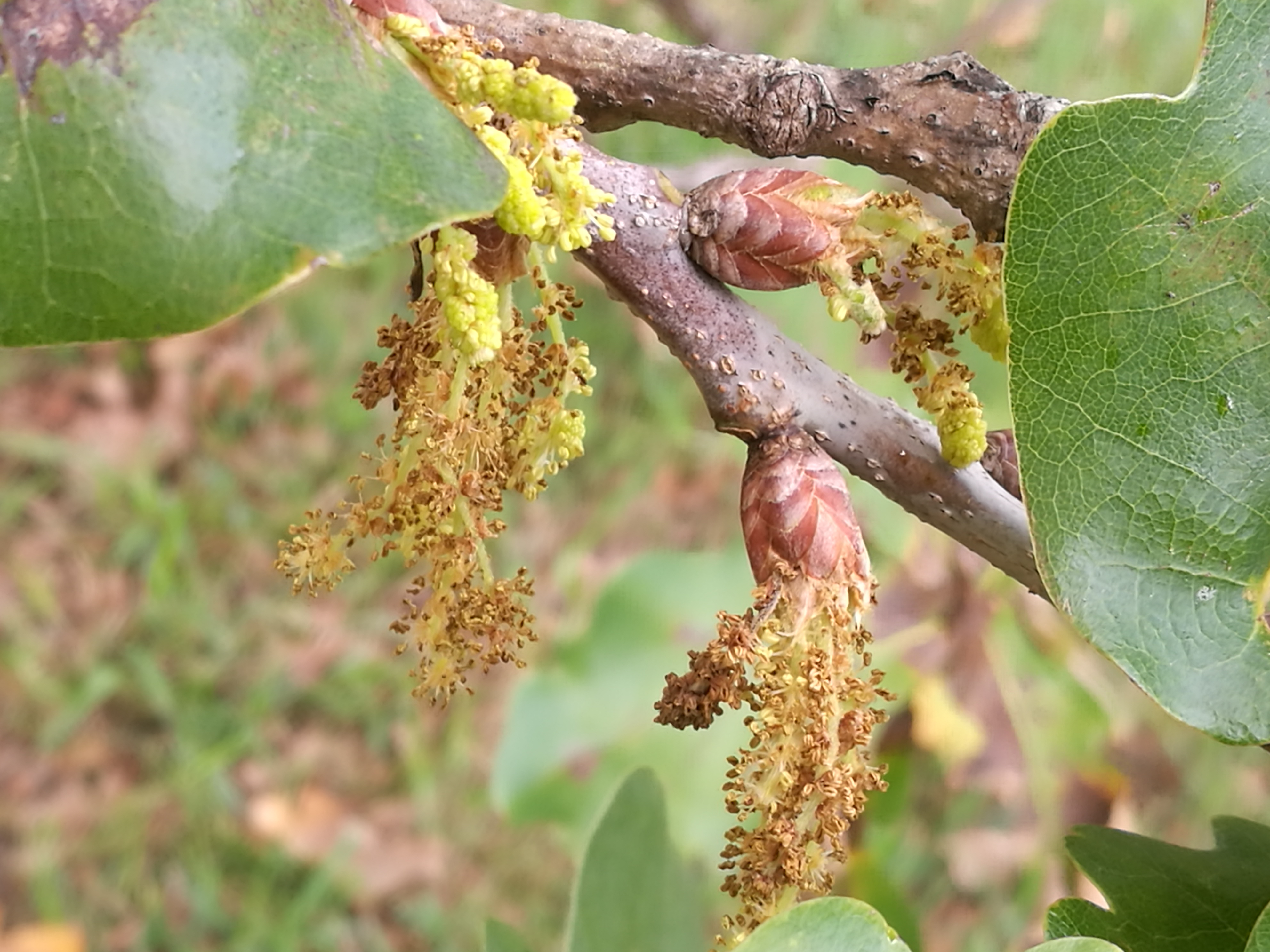 Oak (Quercus) flowers, Gordon, NSW. 06/03/2018